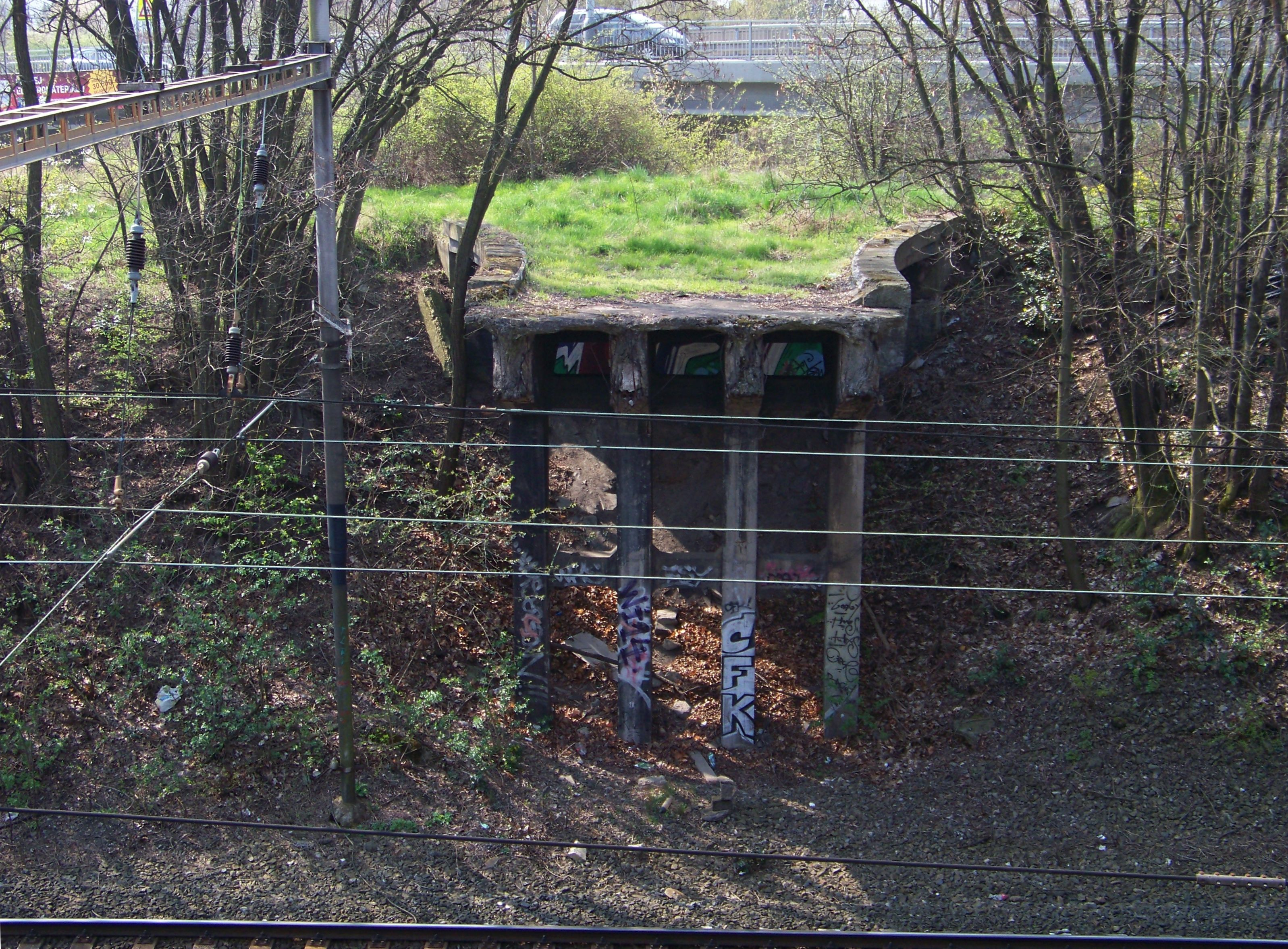 Prague-Kyje, Czech Republic. Za černým mostem street, remains of the old bridge over the railway line.